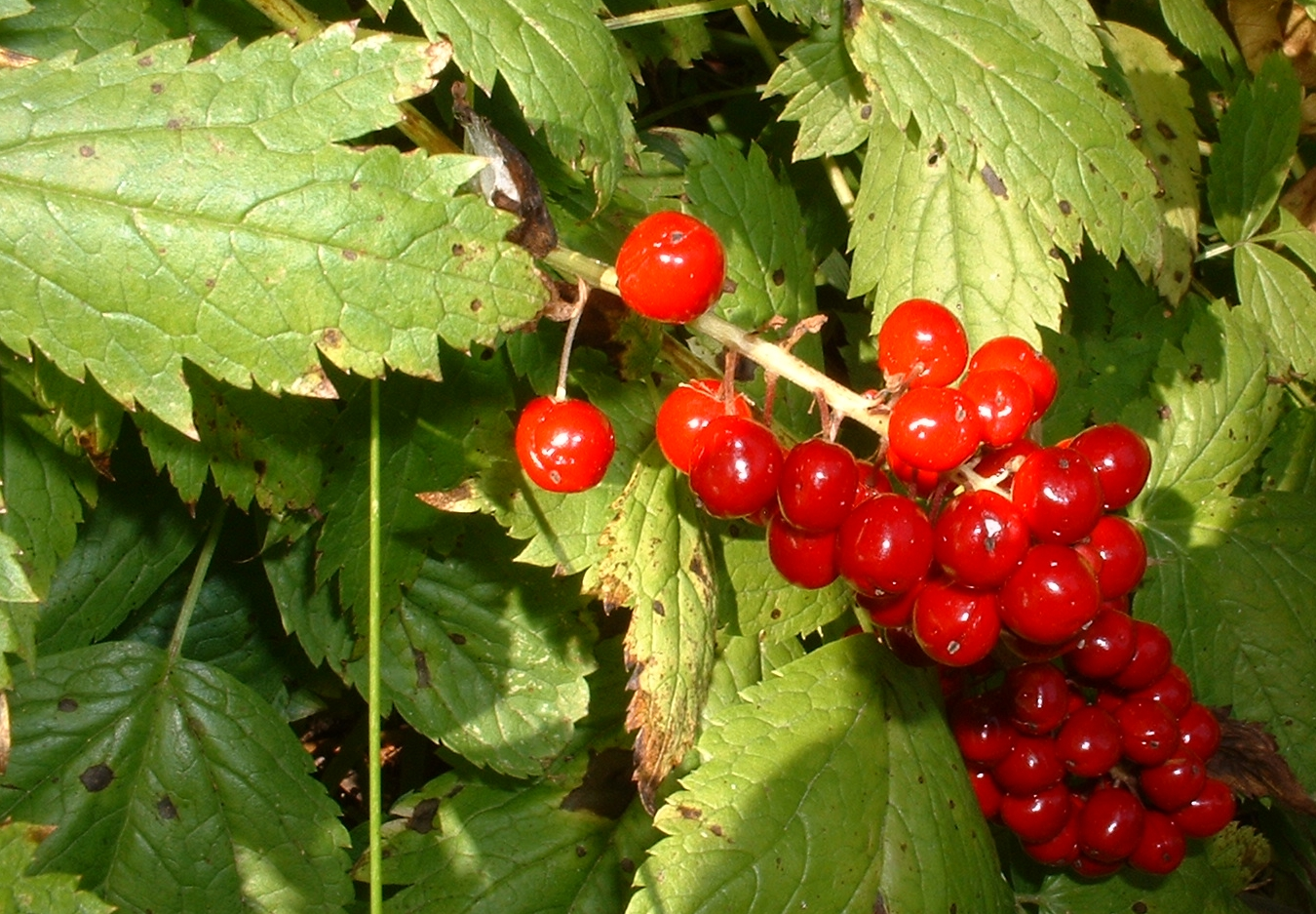 Berries of Red Baneberry, Actaea rubra, photographed near Logan, Utah